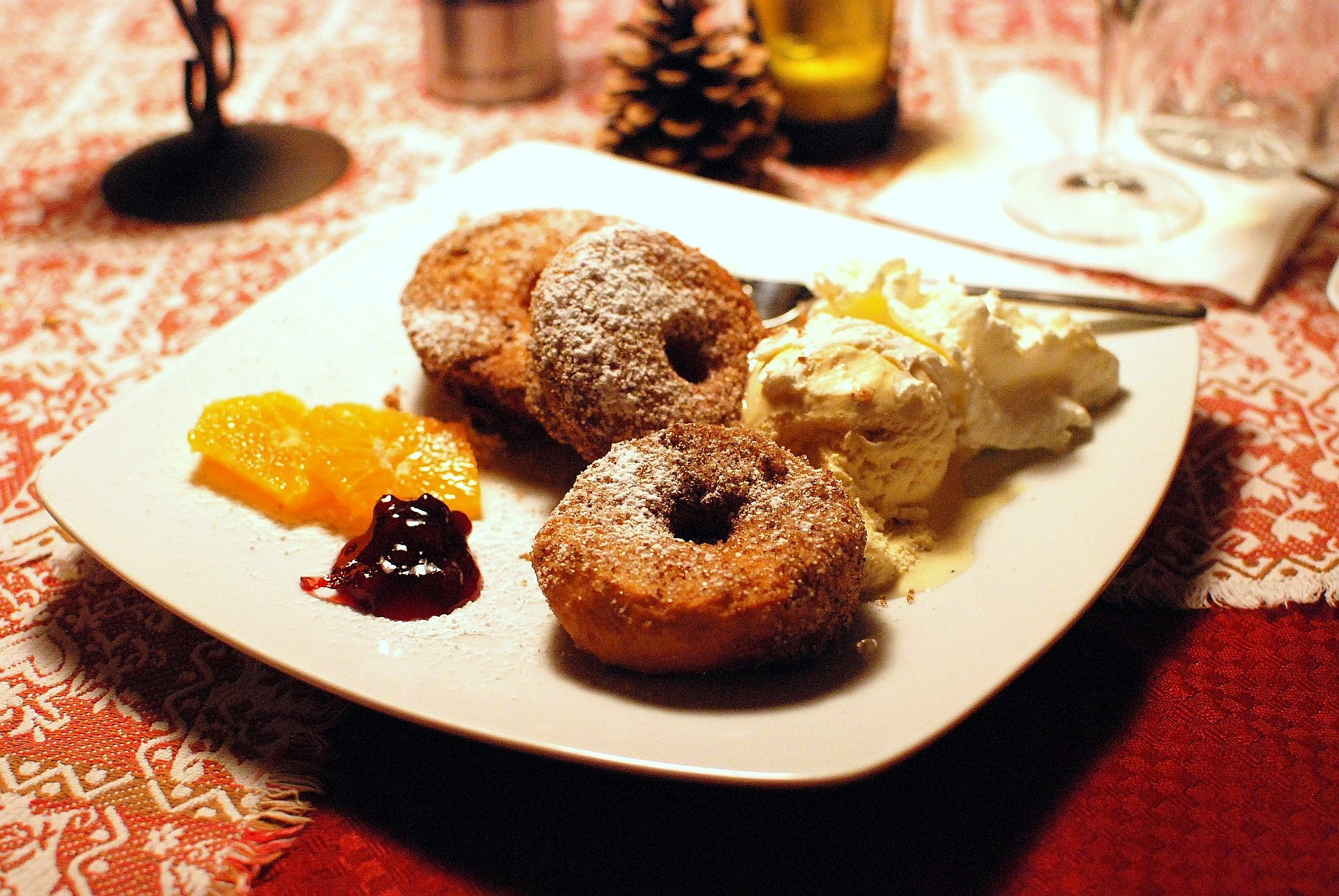 Apfelkiachl mit Marmelade, Eis und Sahne, translated to English it is apple fritters with jam, ice and whipped cream, a speciality in the Alpine regions of Germany and Austria. The photo was taken at a South Tyrolean restaurant in the town of Herrsching, Bavaria, Germany.